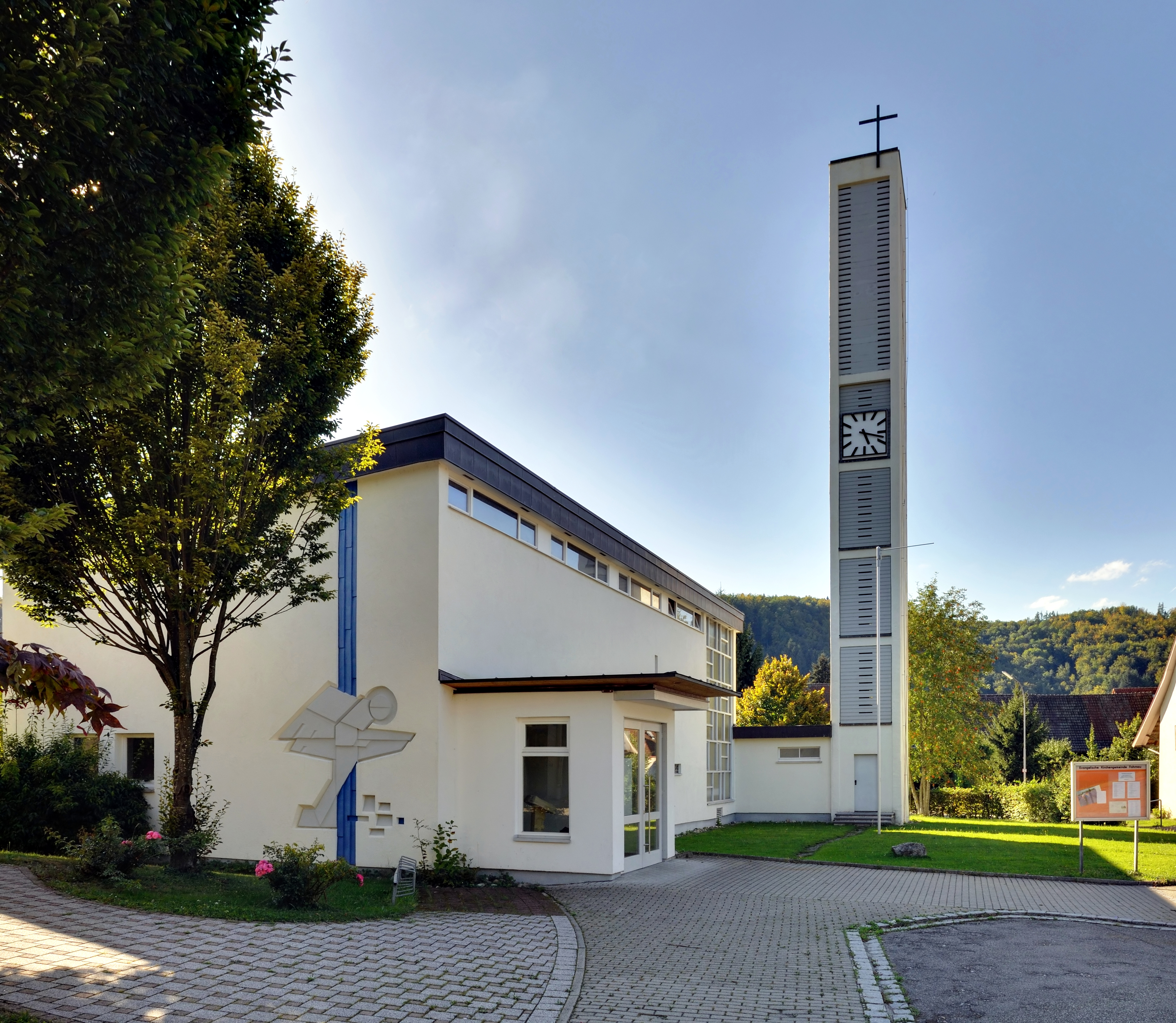 Schopfheim-Fahrnau: Protestant Church